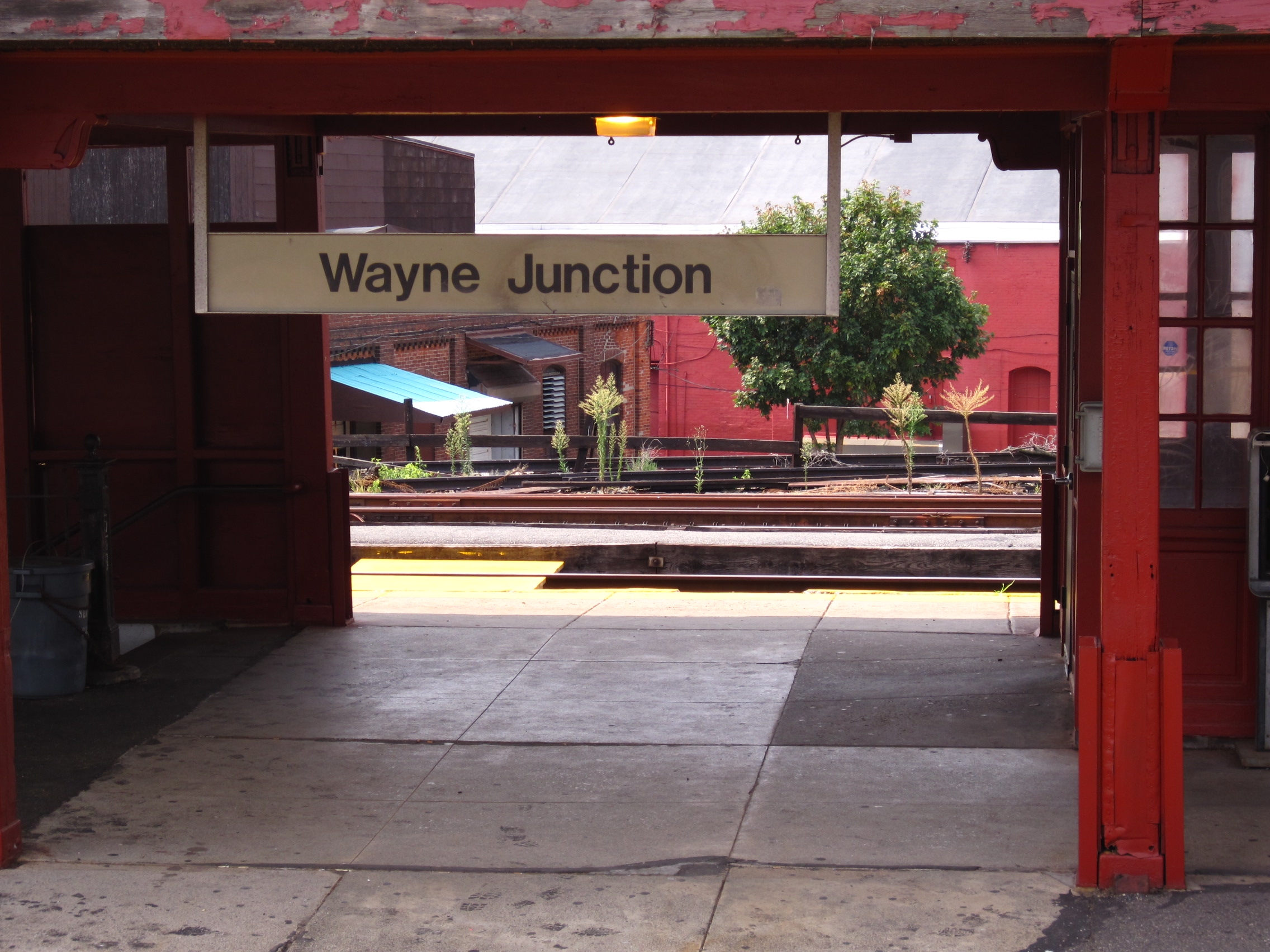 Detail of station sign at Wayne Junction Station, 2010.